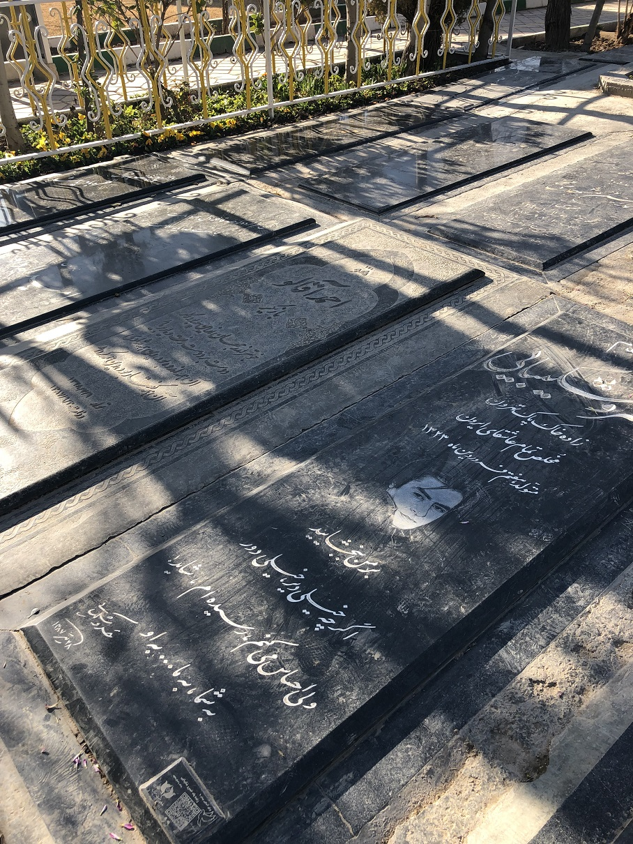 Beheshte Zahra Cemetery